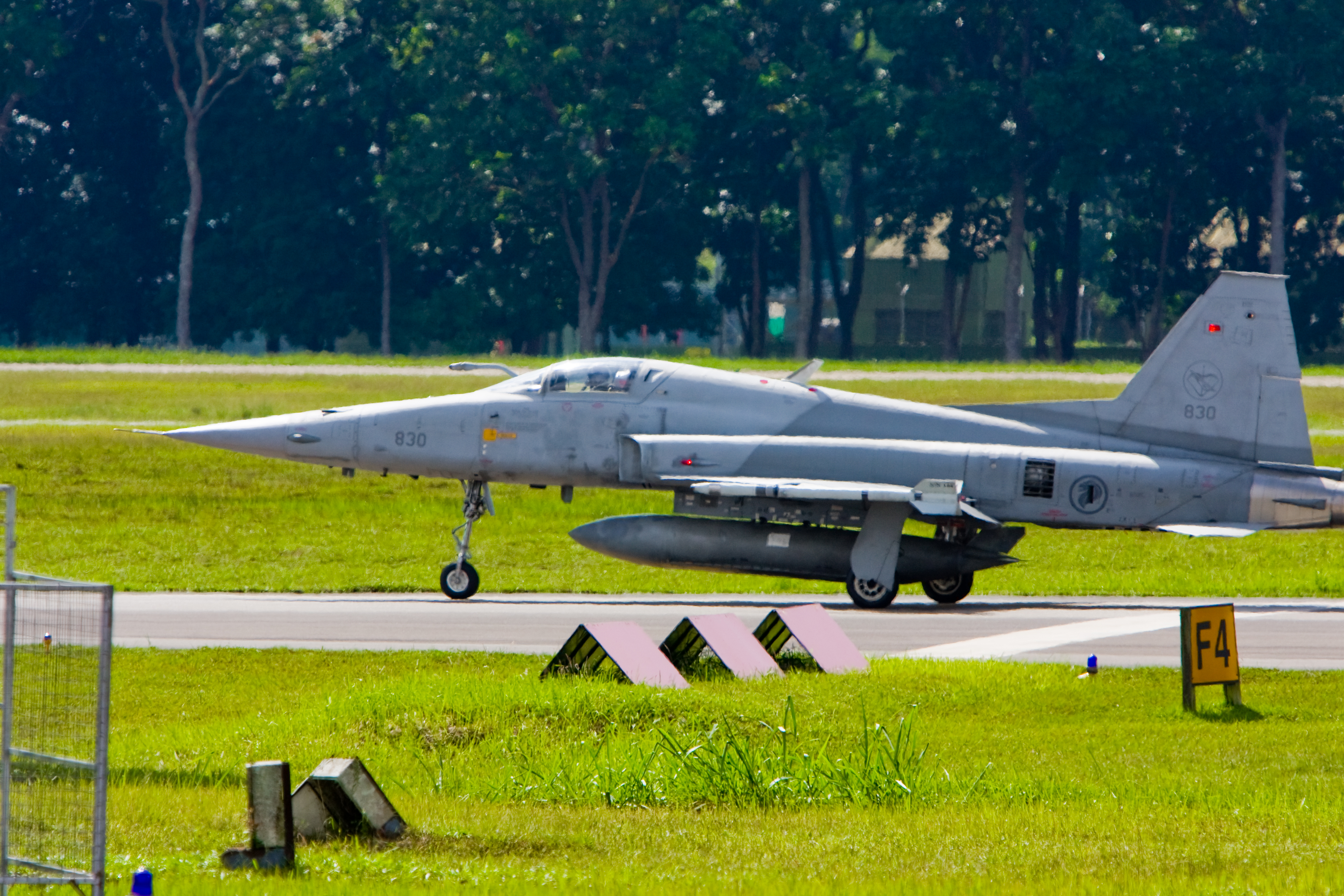 Republic of Singapore Air Force F-5 preparing to take off.